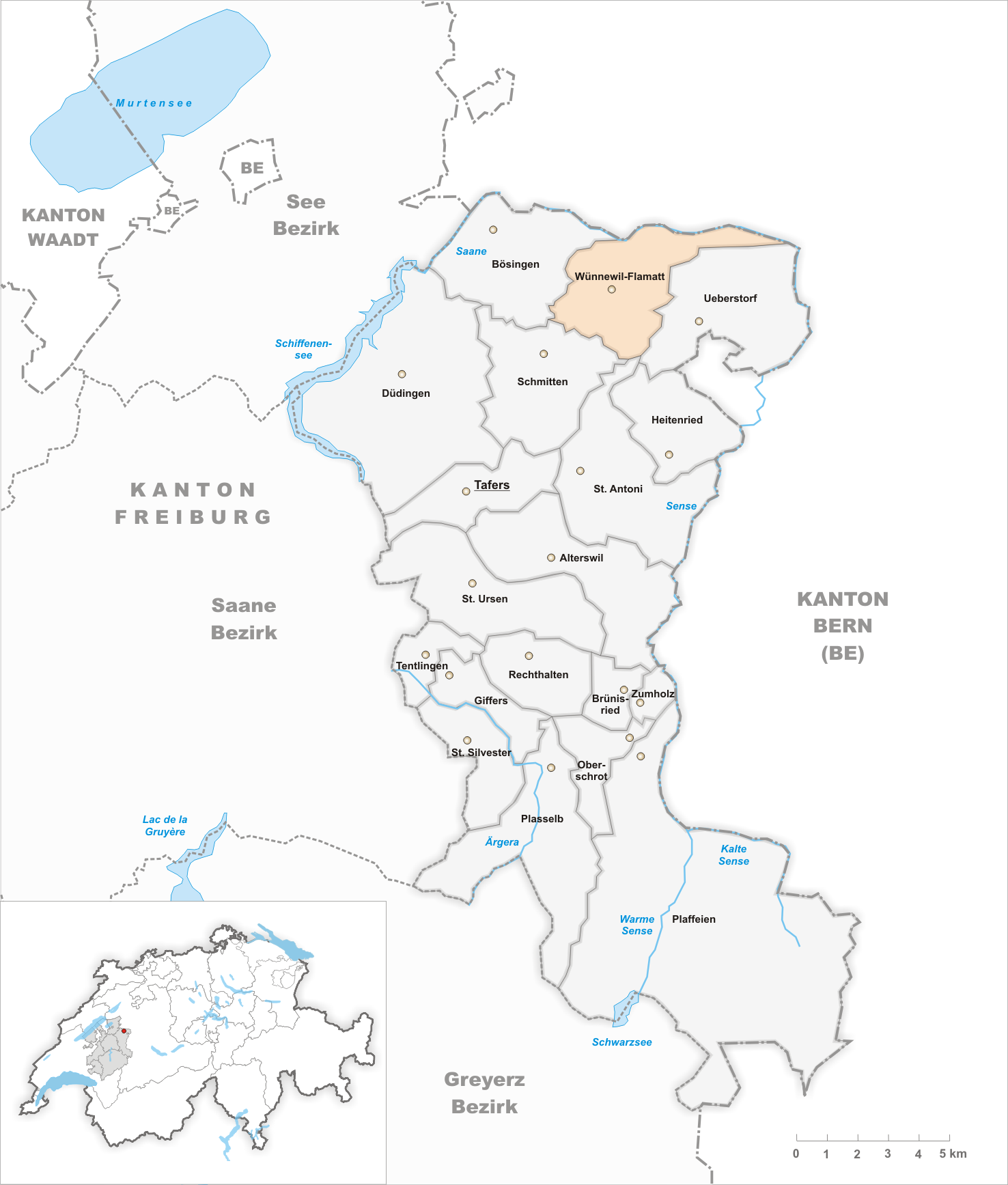 Municipality Wünnewil-Flamatt